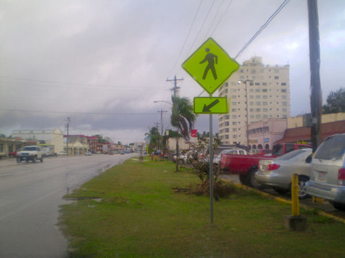 Chalan Kanoa from the ground. Aquarius Hotel stands to the right. Kentucky Fried Chicken, Taco Bell and the Town House Department Store and grocery store are to the right.